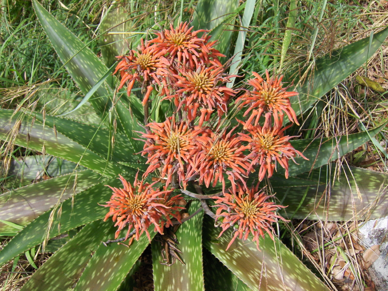 Aloe swynnertonii on Mount Gorongosa close to Gorongosa National Park in Sofala province of Mozambique.